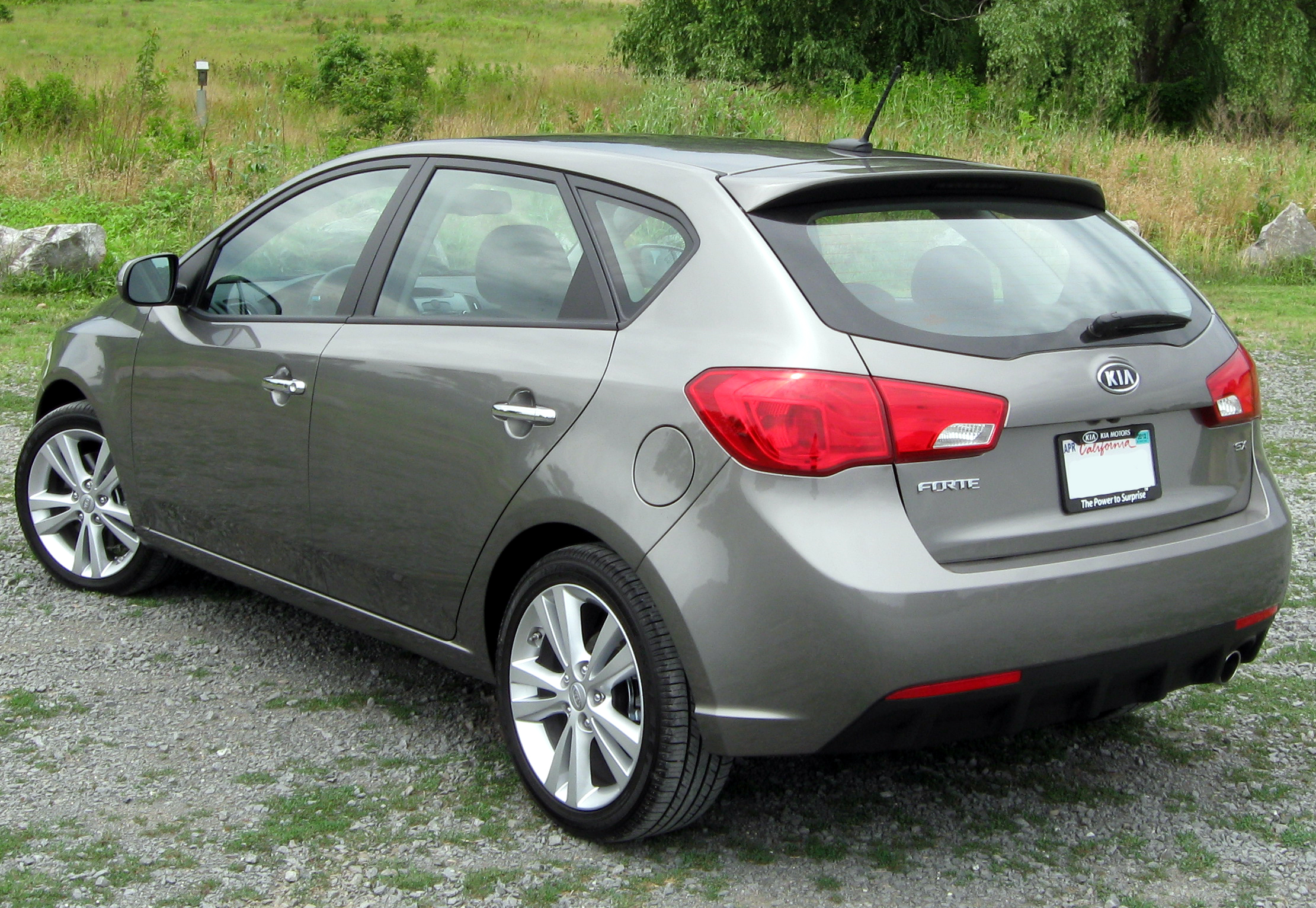 2011 Kia Forte photographed in Chantilly, Virginia, USA.